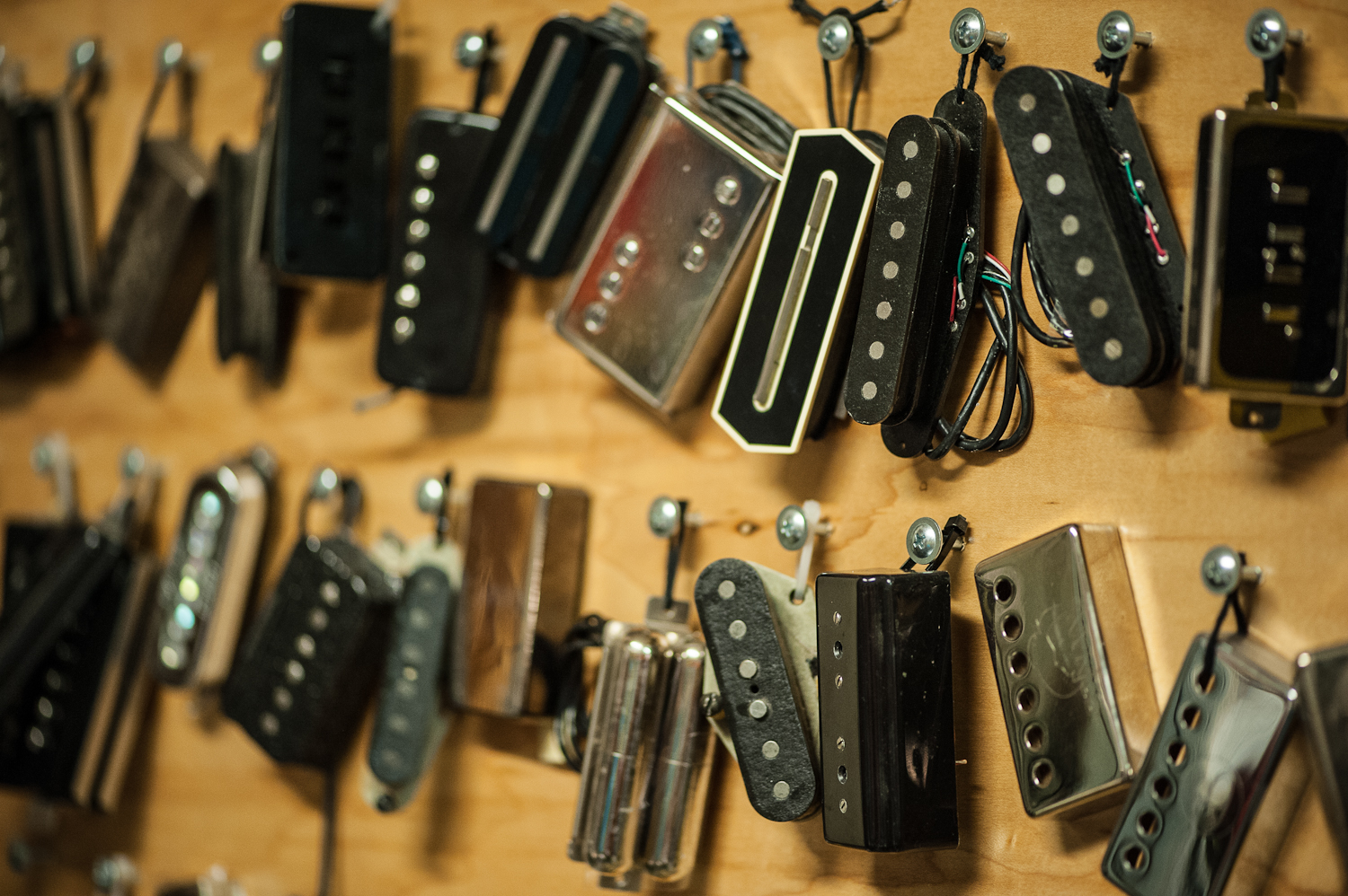 Seymour Duncan Pickup Types